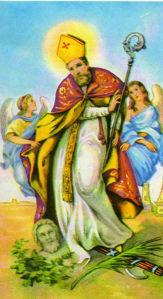 Image of Saint Oronzo (Orontius), from Lecce (IT)